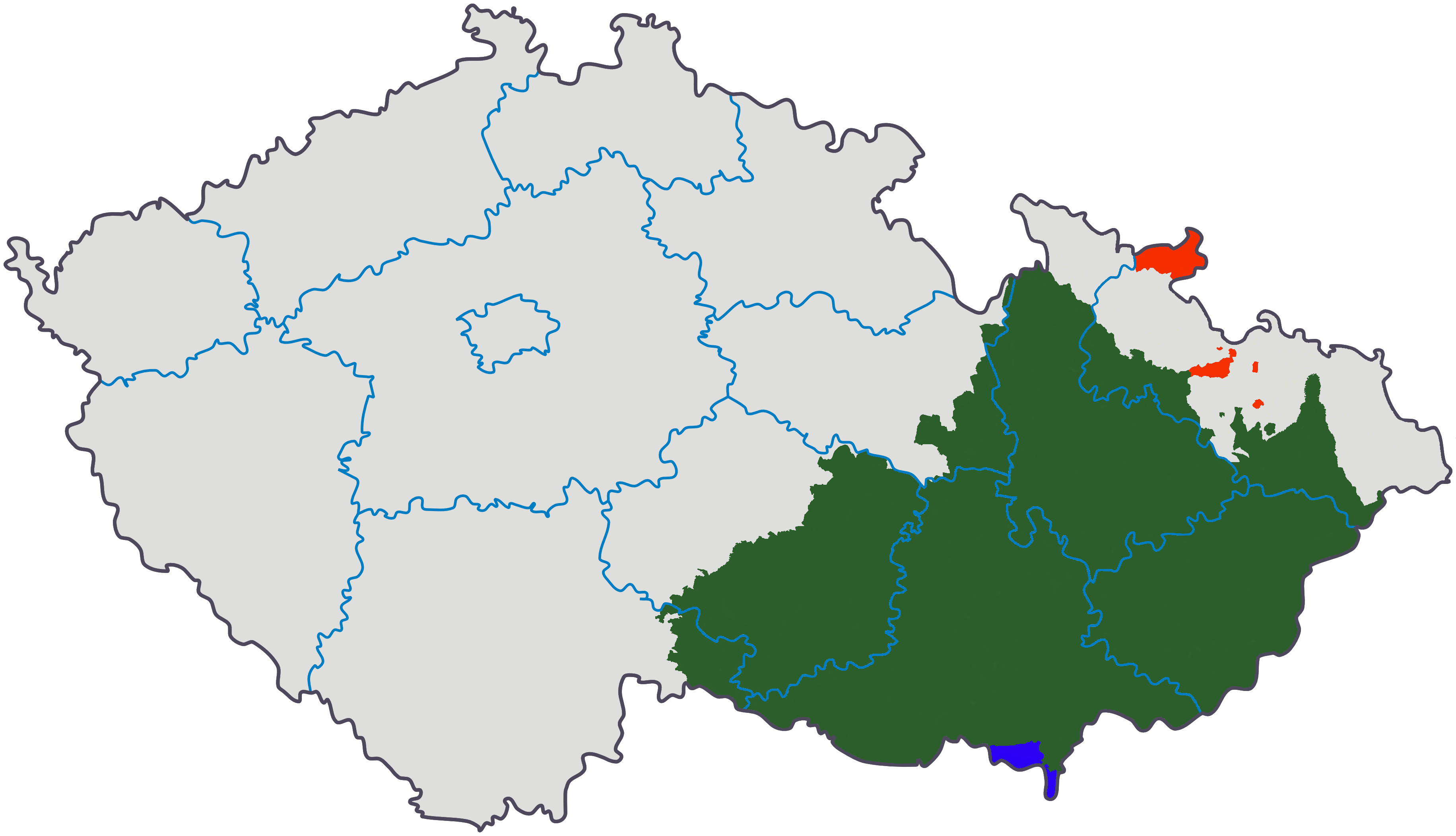 Moravia (green), moravian enclaves in Silesia (red), and change of moravian borders in 1920 (blue )